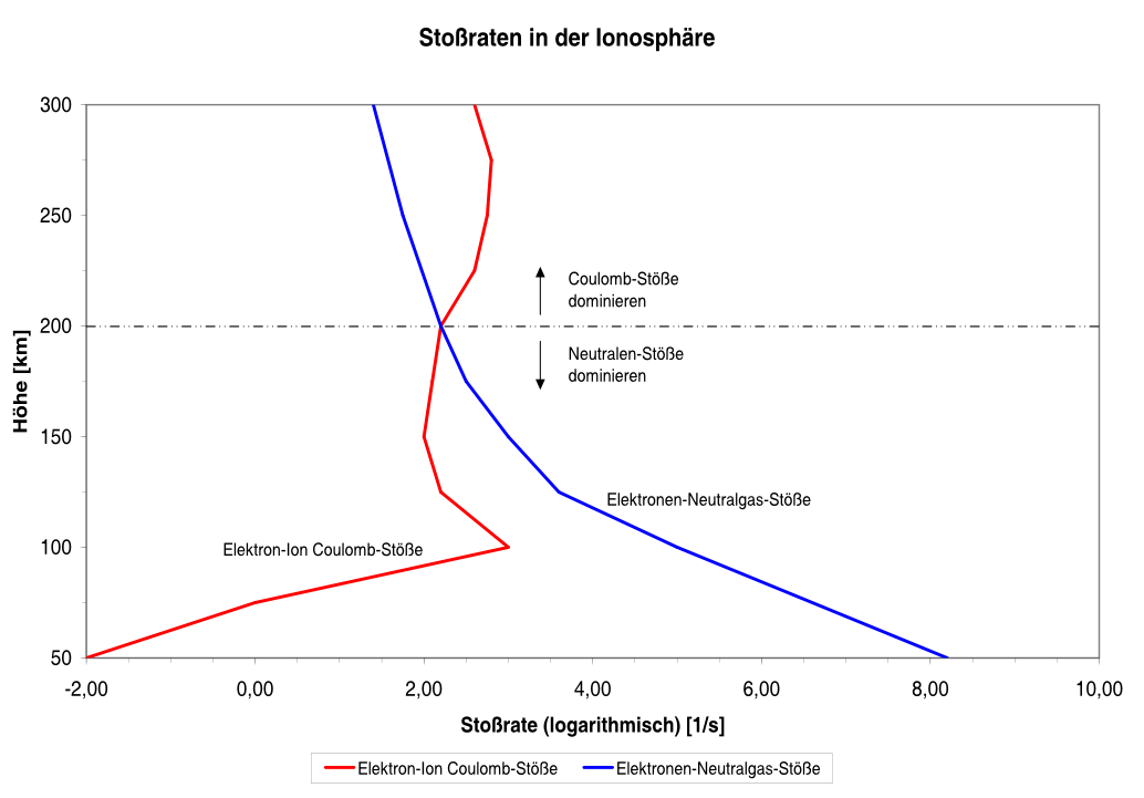 Collision frequencies in the ionosphere, ion-ion-collisions, ion-neutral gas-collisions, coulomb collisions